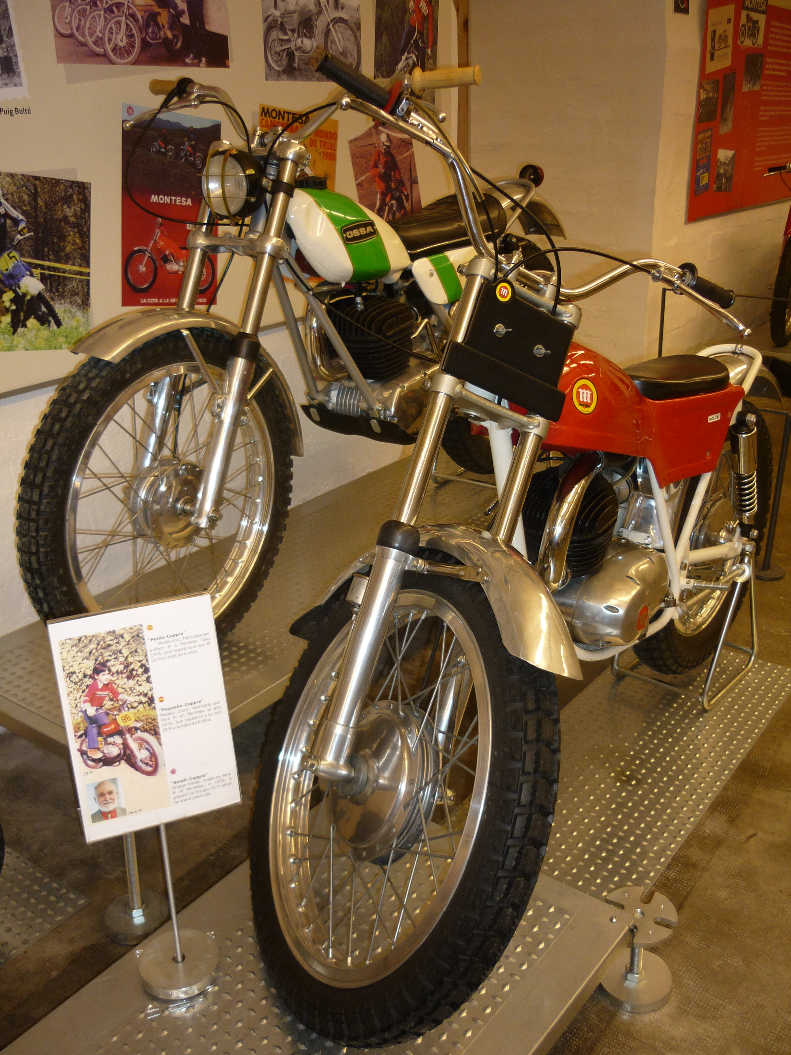 Left: OSSA MAR ("Mick Andrews Replica") 250cc, 1972. Right: Montesa Cota 247 (1968)Museu de la Moto de Barcelona (Catalonia).